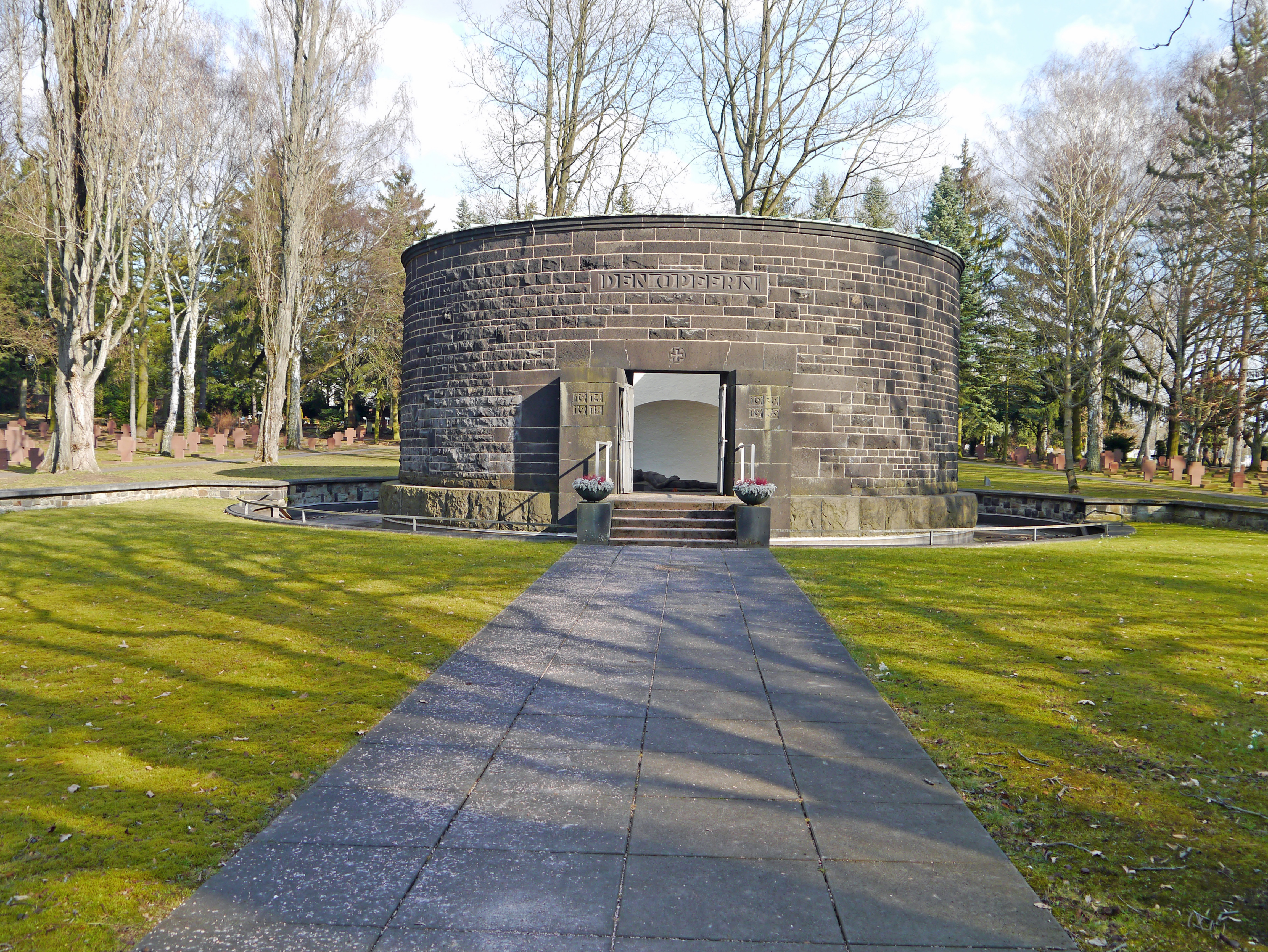 Memorial place for war victim at "Hauptfriedhof" Frankfurt am Main, Germany.